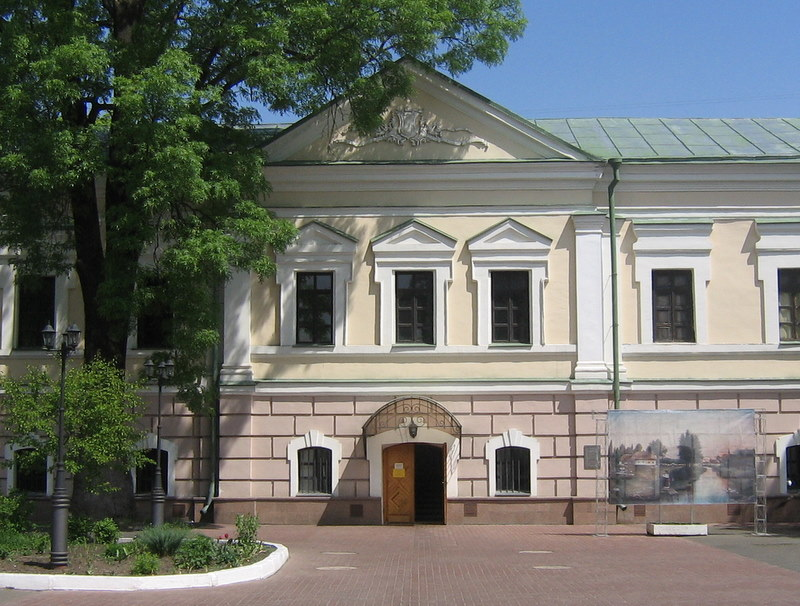 Ivan Honchar Museum — Kiev.